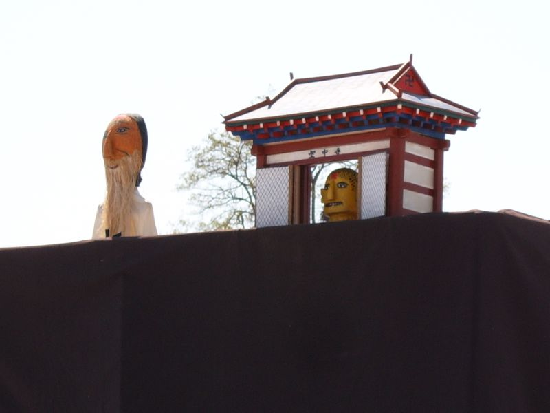 Deolmi (덜미), or called kkokdugaksi noreum (꼭두각시놀음) for Korean traditional puppetry. It was performed for Hi! Seoul Festival on April 28th 2007